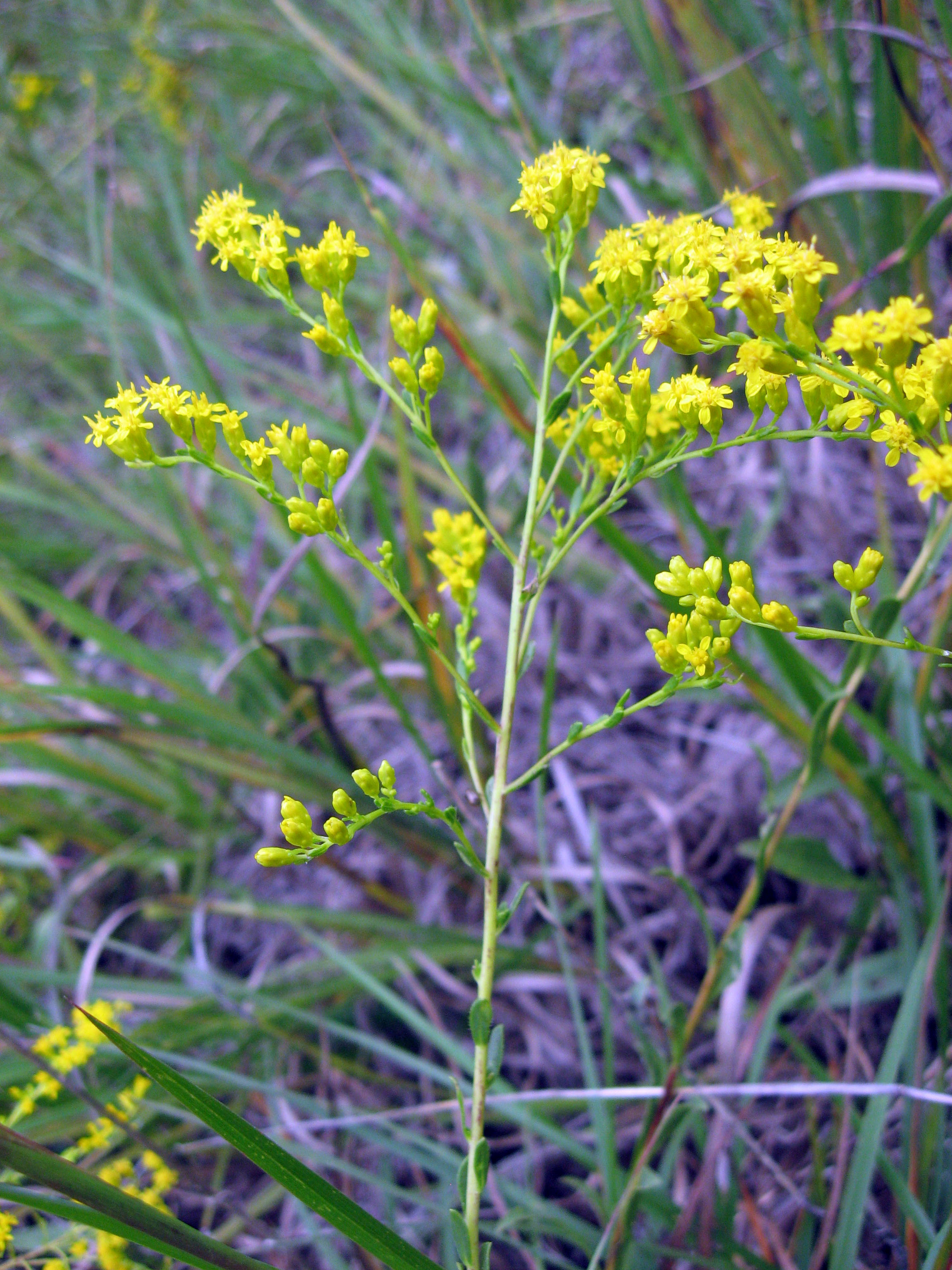 Solidago gattingeri, Flat Rock Cedar Glades and Barrens State Natural Area, a cedar glade in Rutherford County, Tennessee